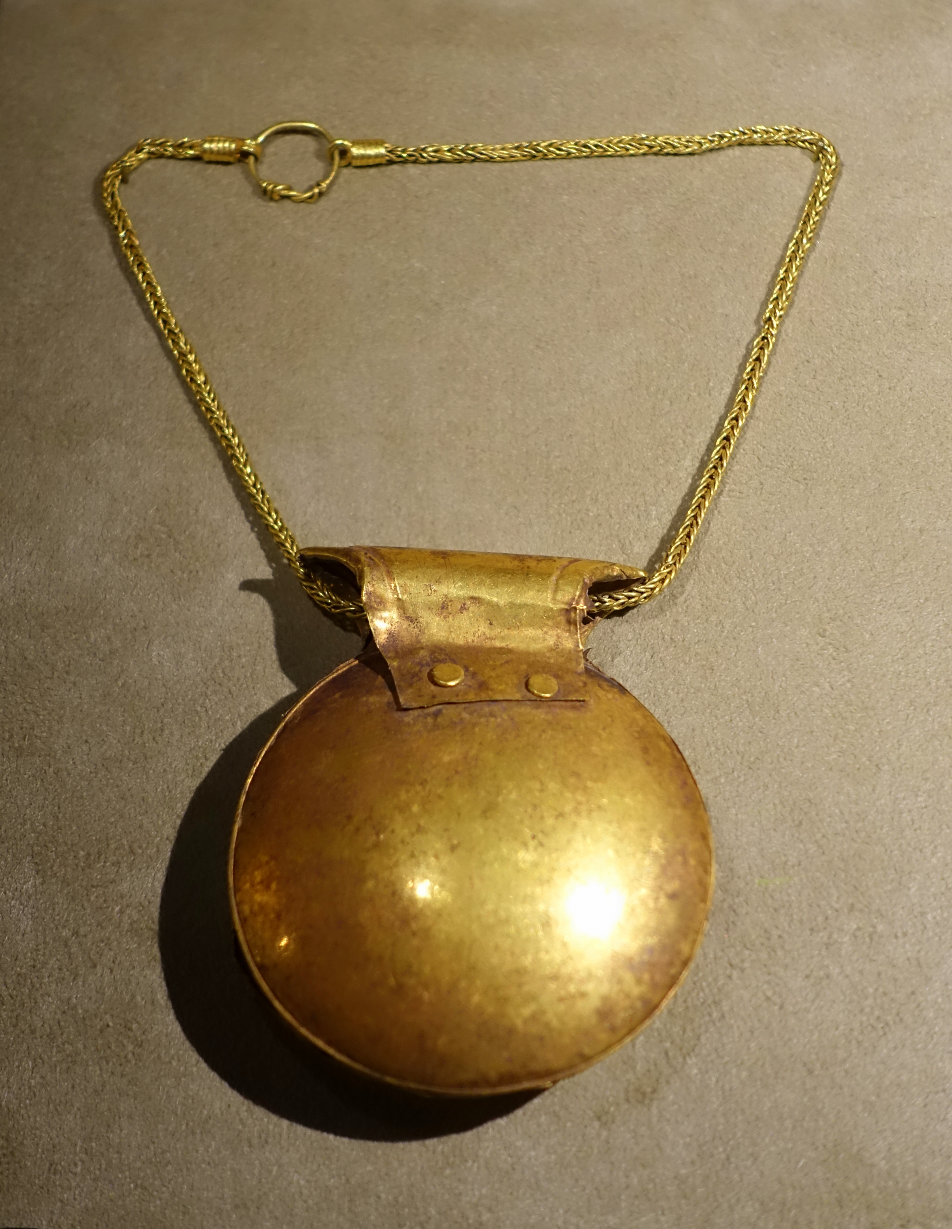 Exhibit in the Museo Gregoriano Etrusco - Vatican Museums.